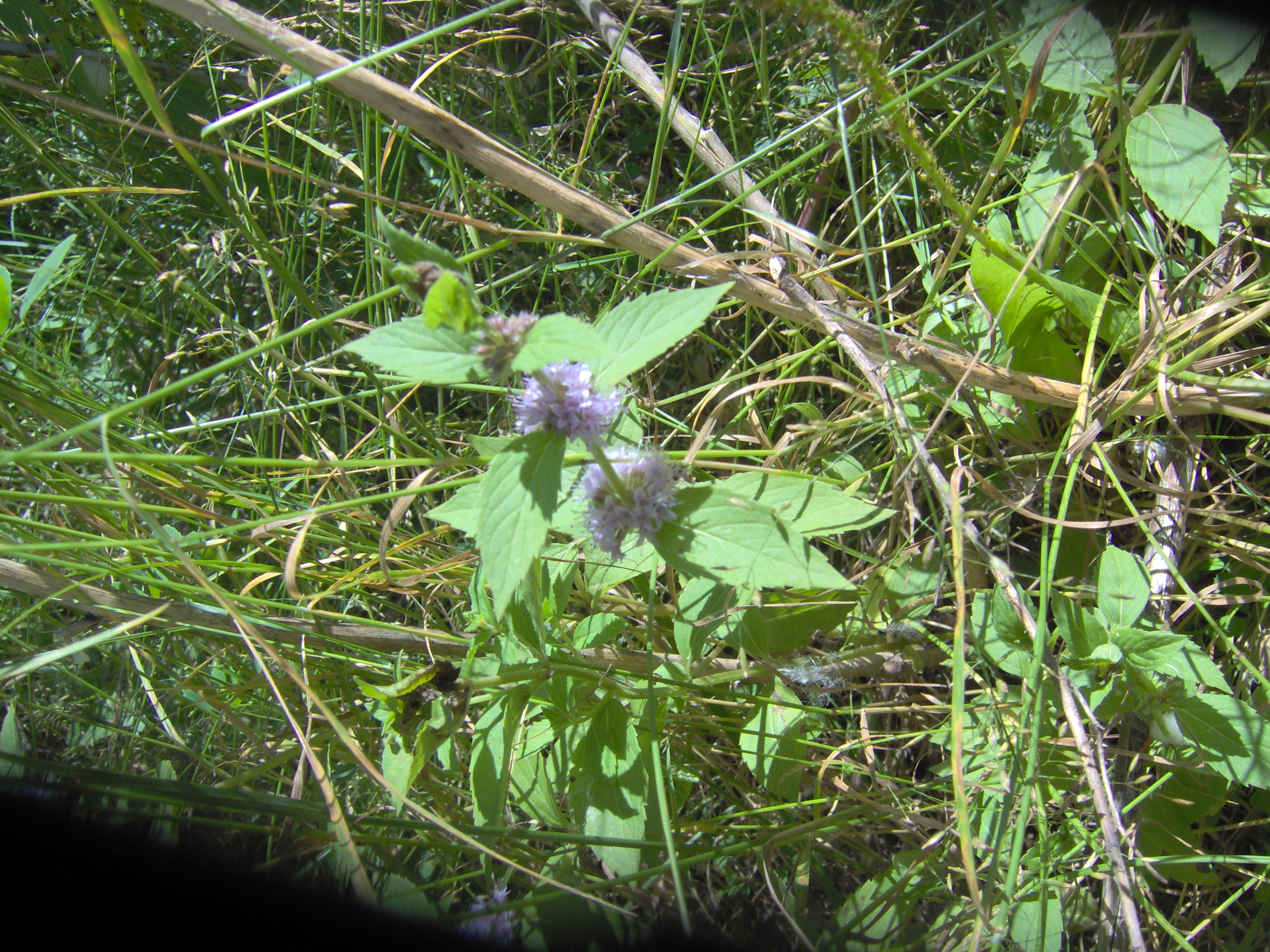 Wild Mint in Saskatchewan Mentha canadensis (Lamiaceae). Leaf smells minty if pinched between fingers. Chew leaves or drink tea.